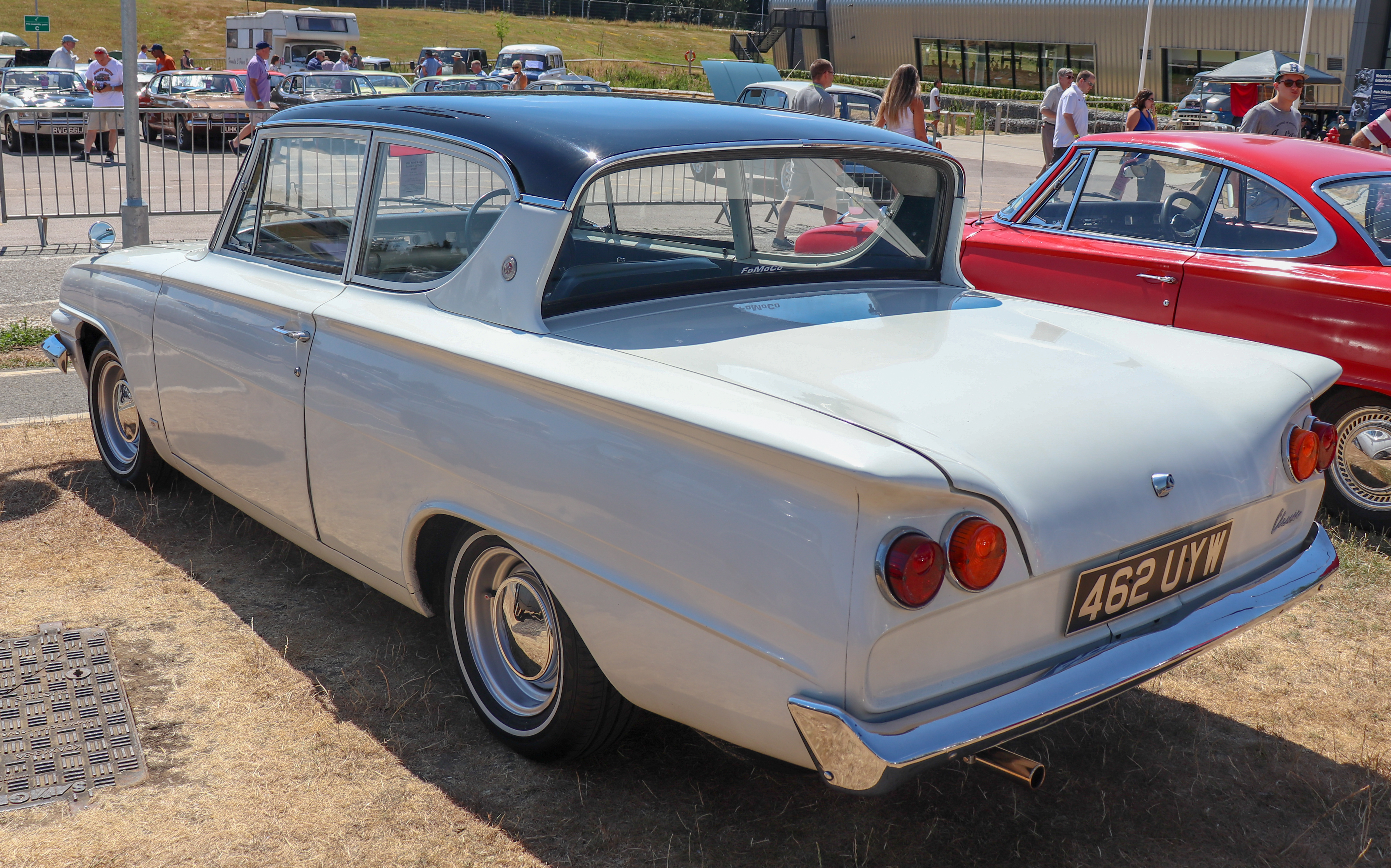 1962 Ford Consul Classic 1.5 Rear Taken at the British Motor Museum Old Ford Rally 2018, Gaydon